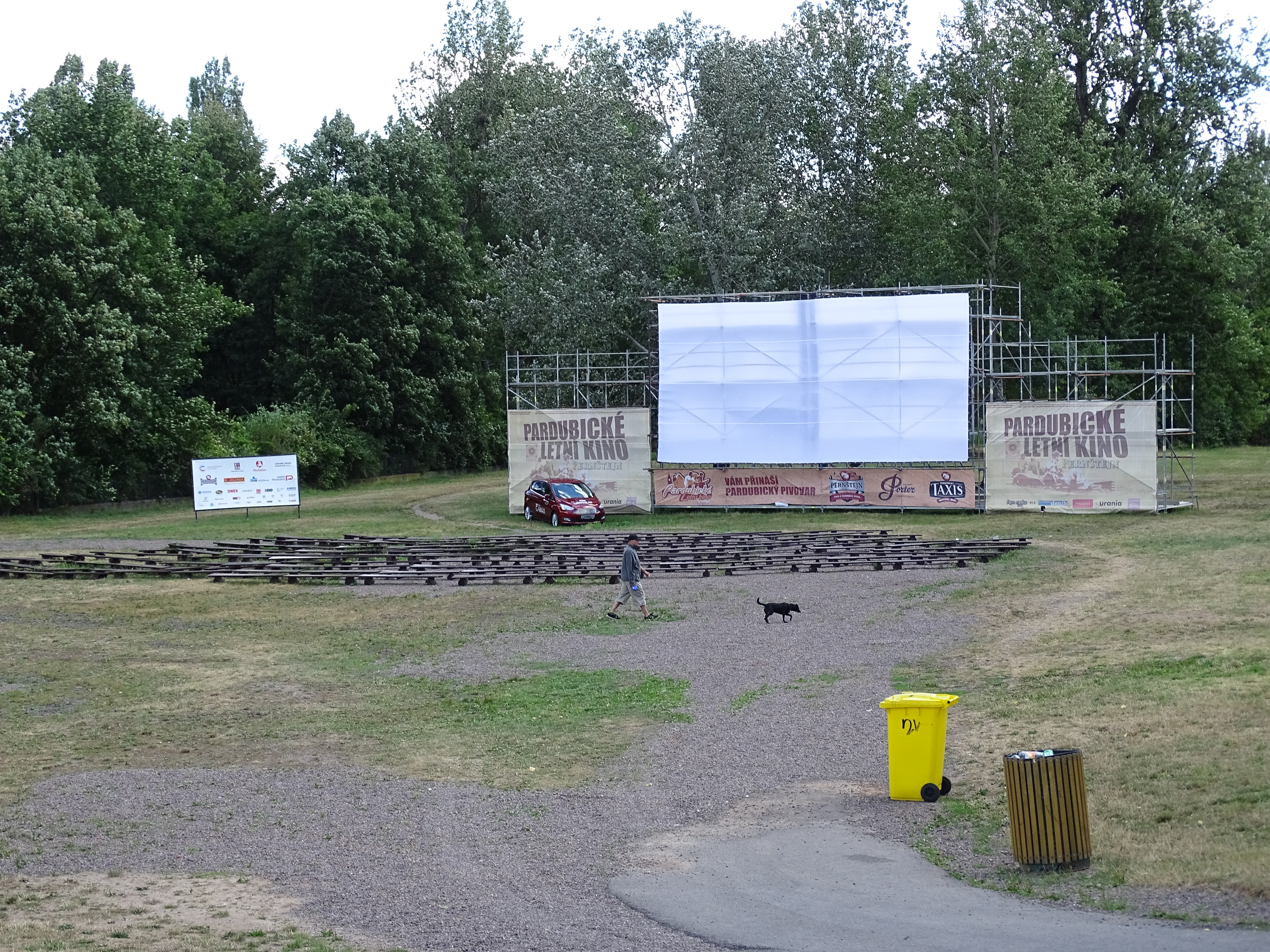 Pardubice I-Zelené Předměstí, Pardubice District, Pardubice Region, Czech Republic. Kpt. Bartoše street, an open air cinema.